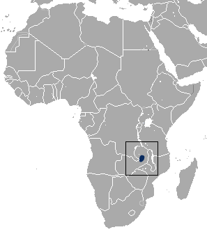 Pitman's Shrew (Crocidura pitmani) range